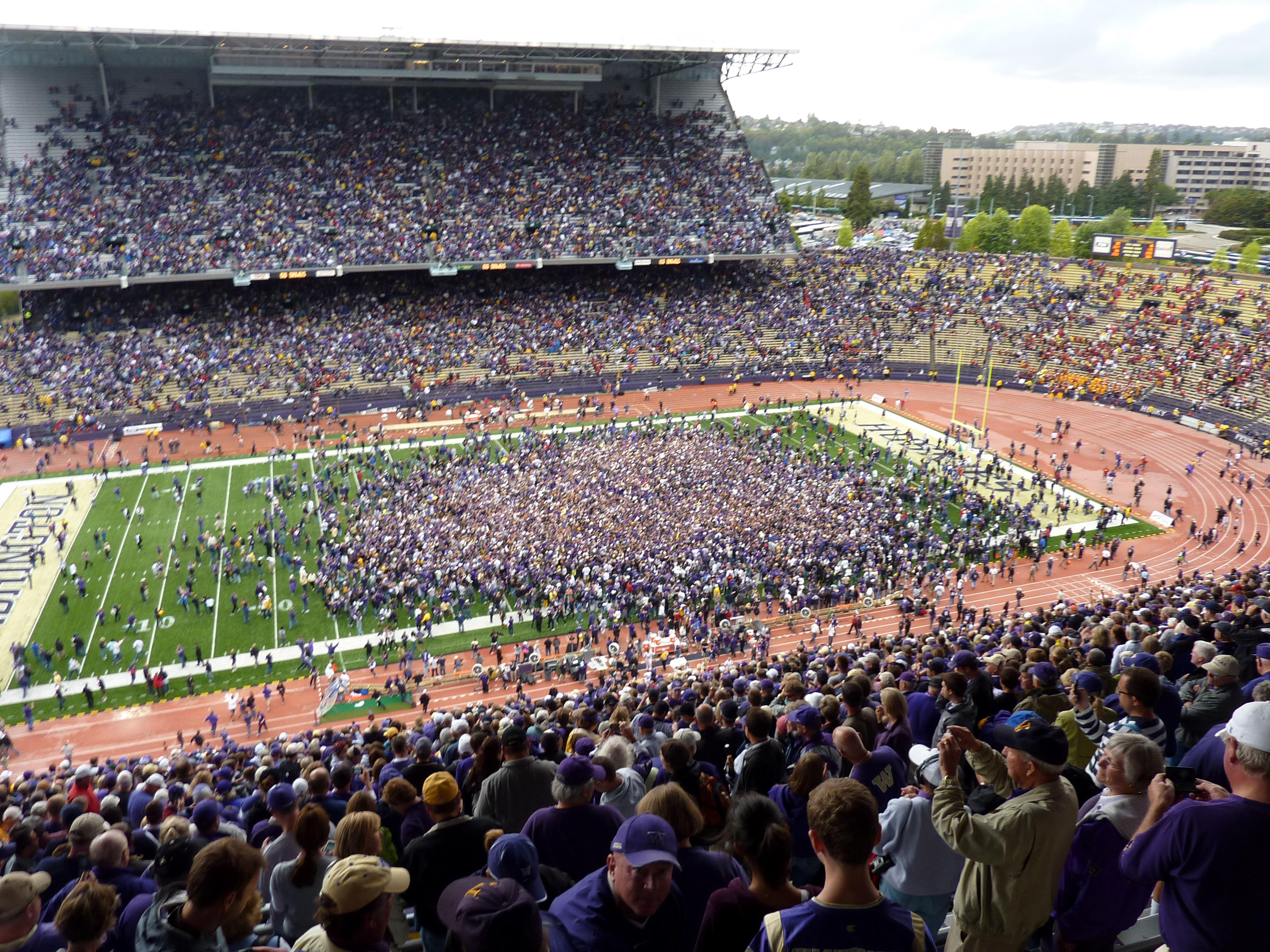 Ecstatic fans of the home team, University of Washington, storm the field in celebration after a college football game between the visiting No. 3-ranked USC Trojans and the Washington Huskies ended in an upset over the heavily-favored Trojans, with the Huskies prevailing 16–13. Husky Stadium on September 19, 2009.